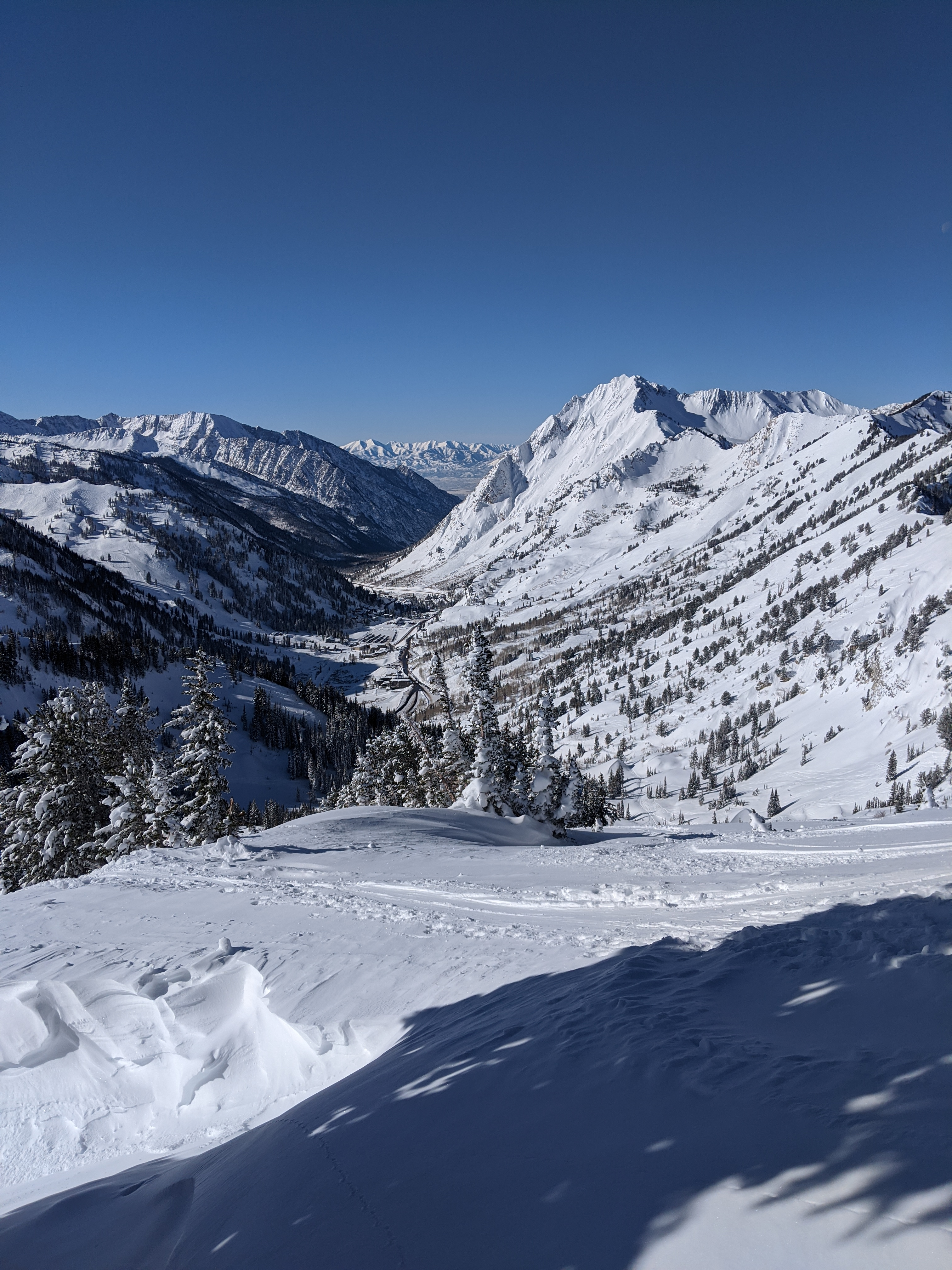 View of Little Cottonwood Canyon, with the largest peak on the right of the canyon being Mount Superior